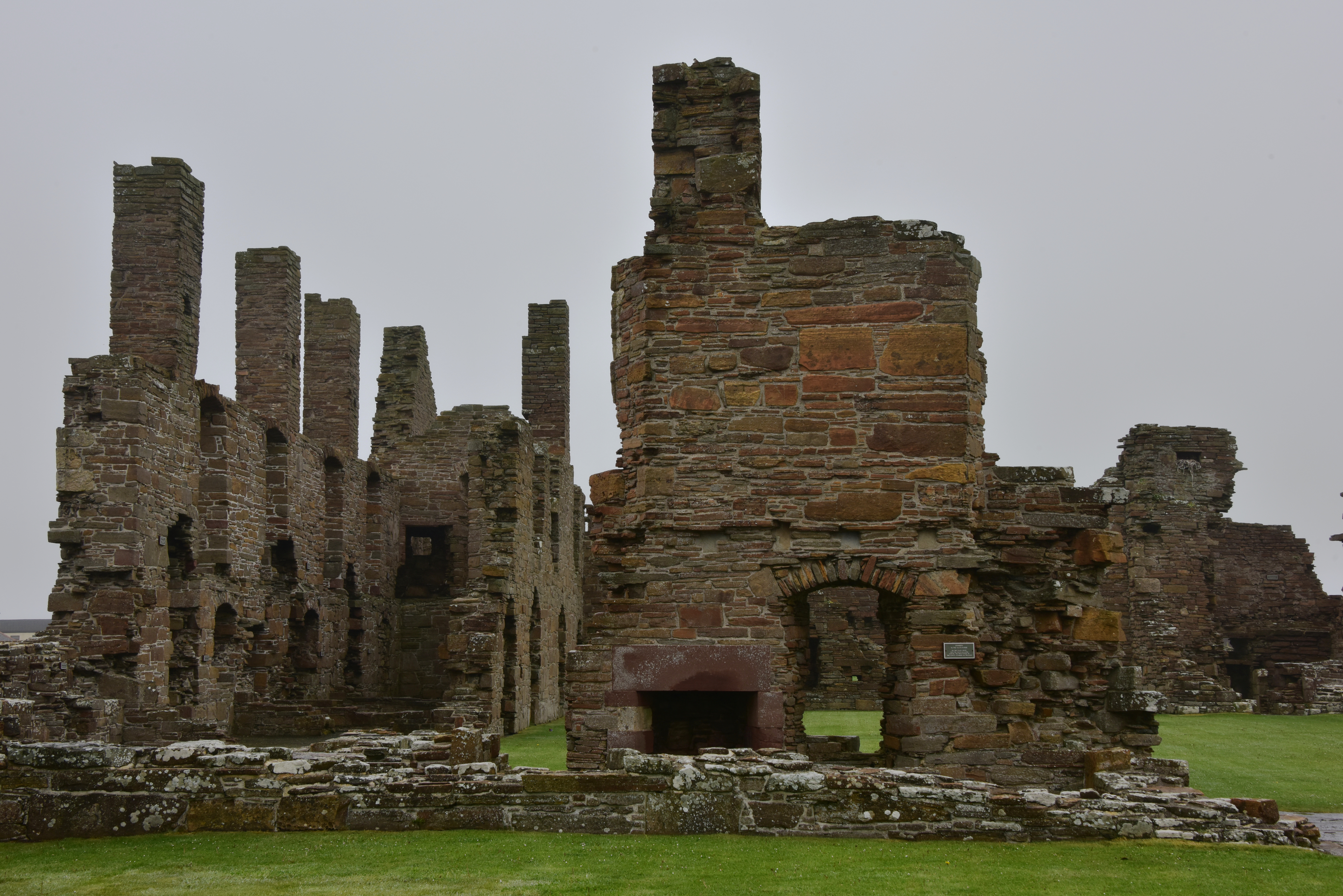 A 16th-century palace built by an illegitimate son of King James V.